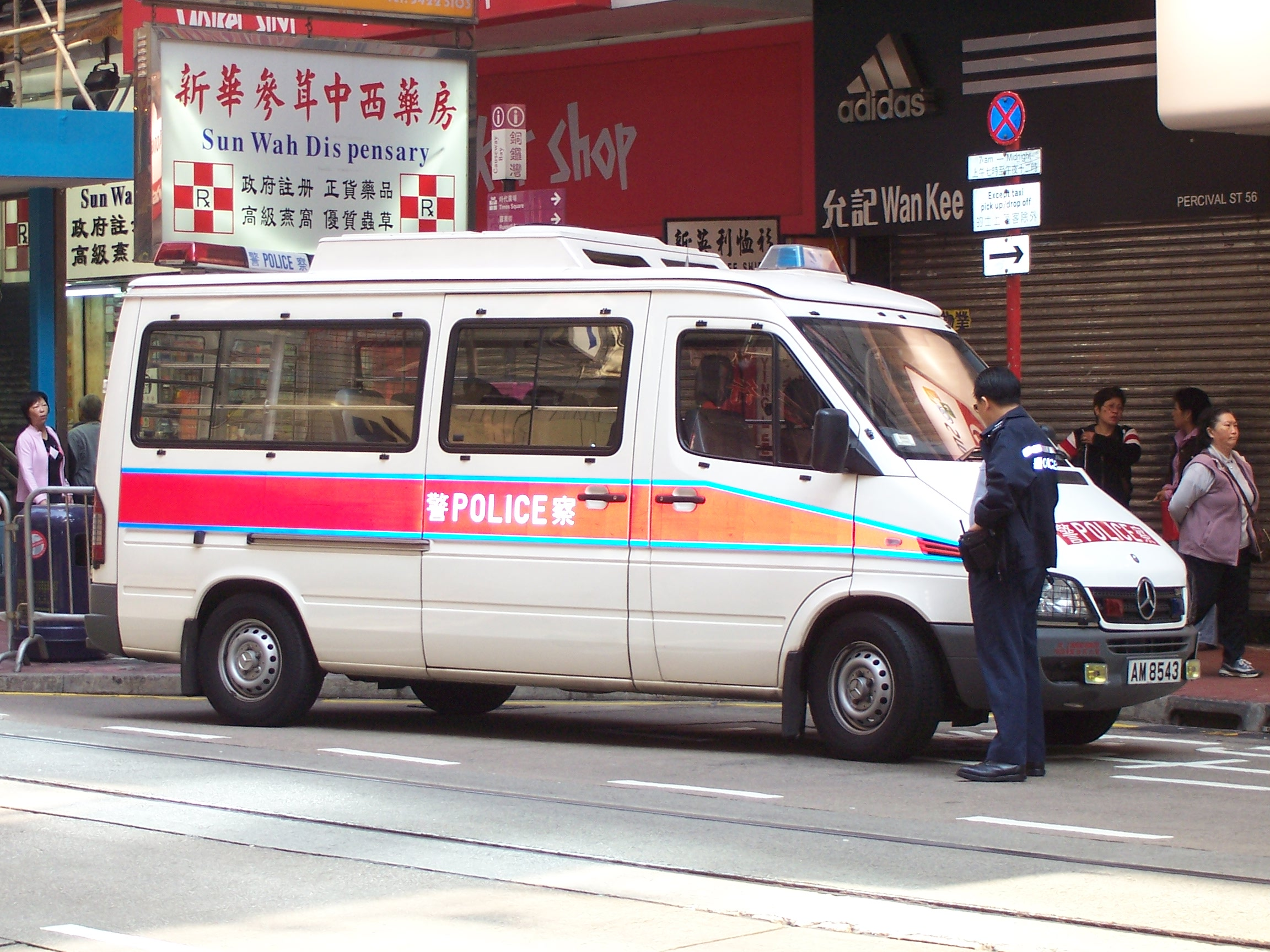 Mercedes-Benz Sprinter as a police van in Hong Kong.